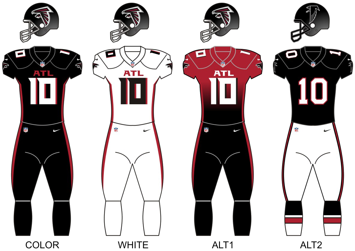 The uniforms of the Atlanta Falcons since the 2020 NFL season.